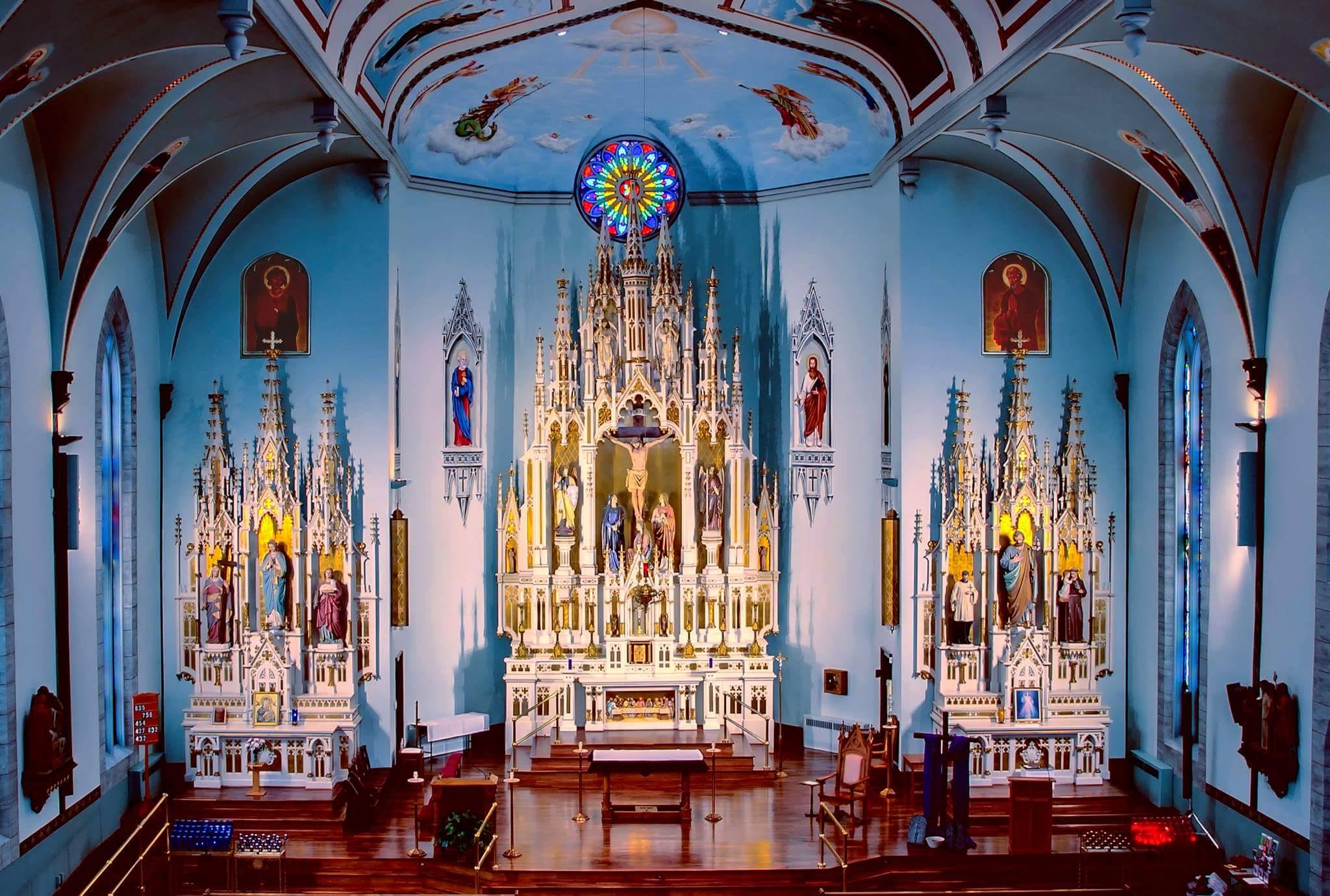 Interior of St. Michael Church looking towards the altars from the choir loft.